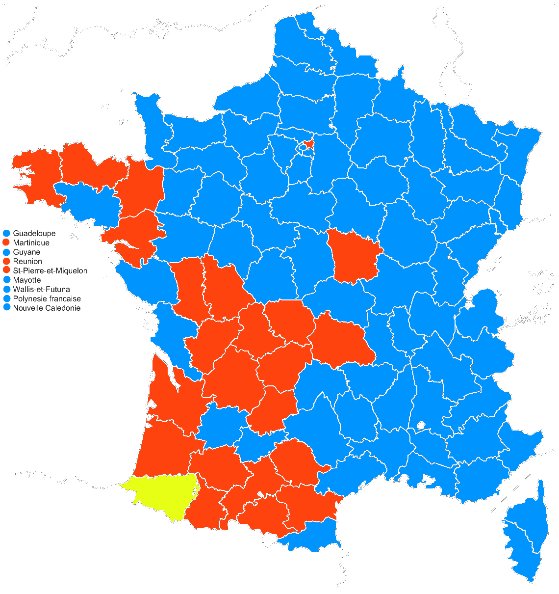 Results of the first round of the french presidential election, 2007. (Sarkozy - blue, Royal - red, Bayrou - yellow).